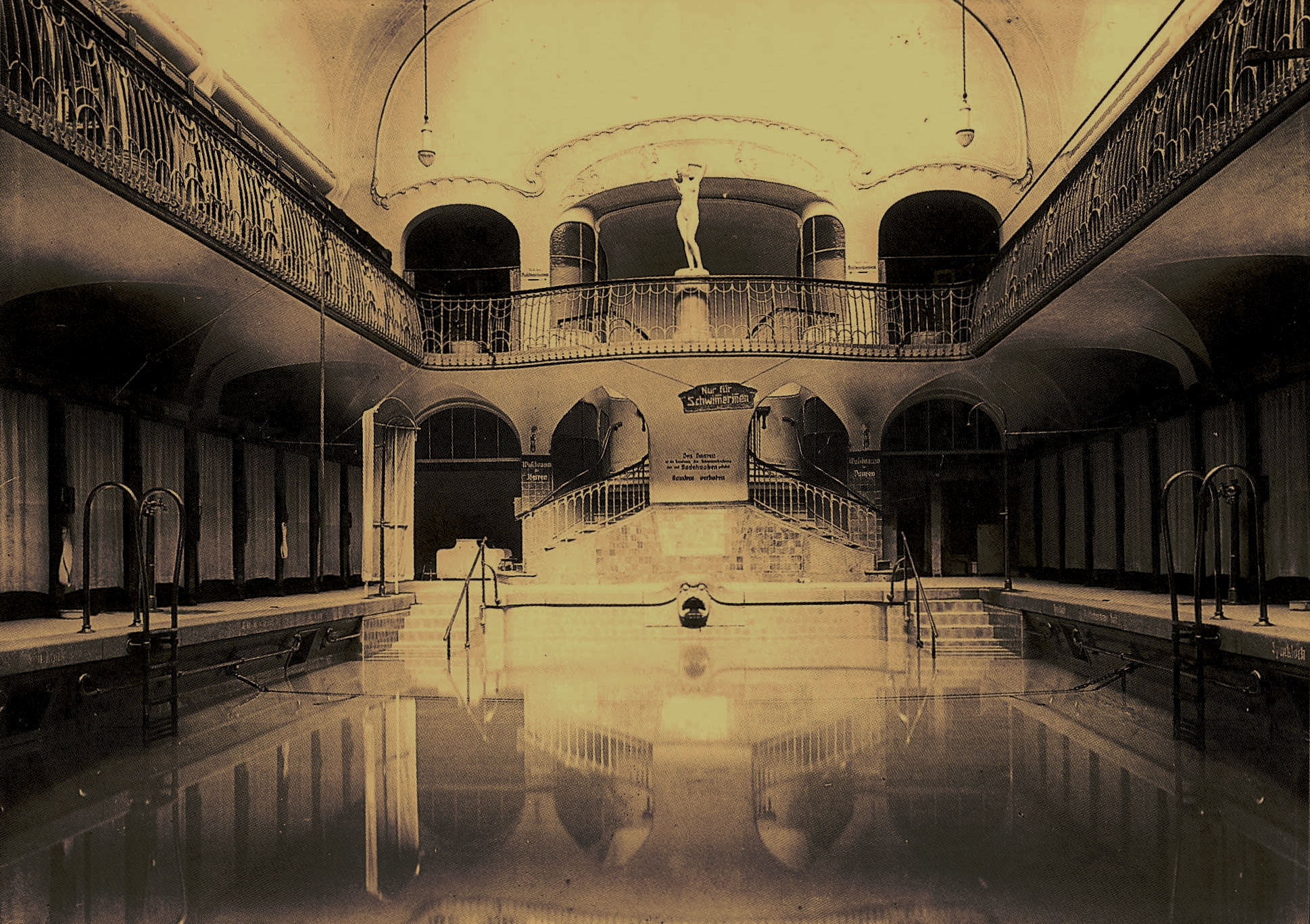 Güntzbad innen